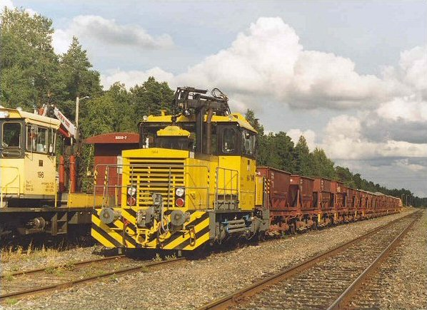 Finnish class Tka8 track-lorry/light locomotive number 564 at Tuira station in Oulu, Finland, with a consist of Mas ballast hoppers.